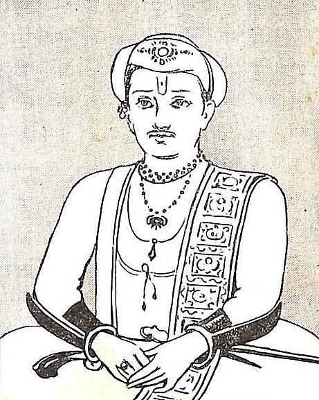 Chhatrapati Pratapsingh